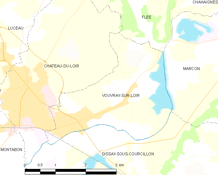 Map of French municipality